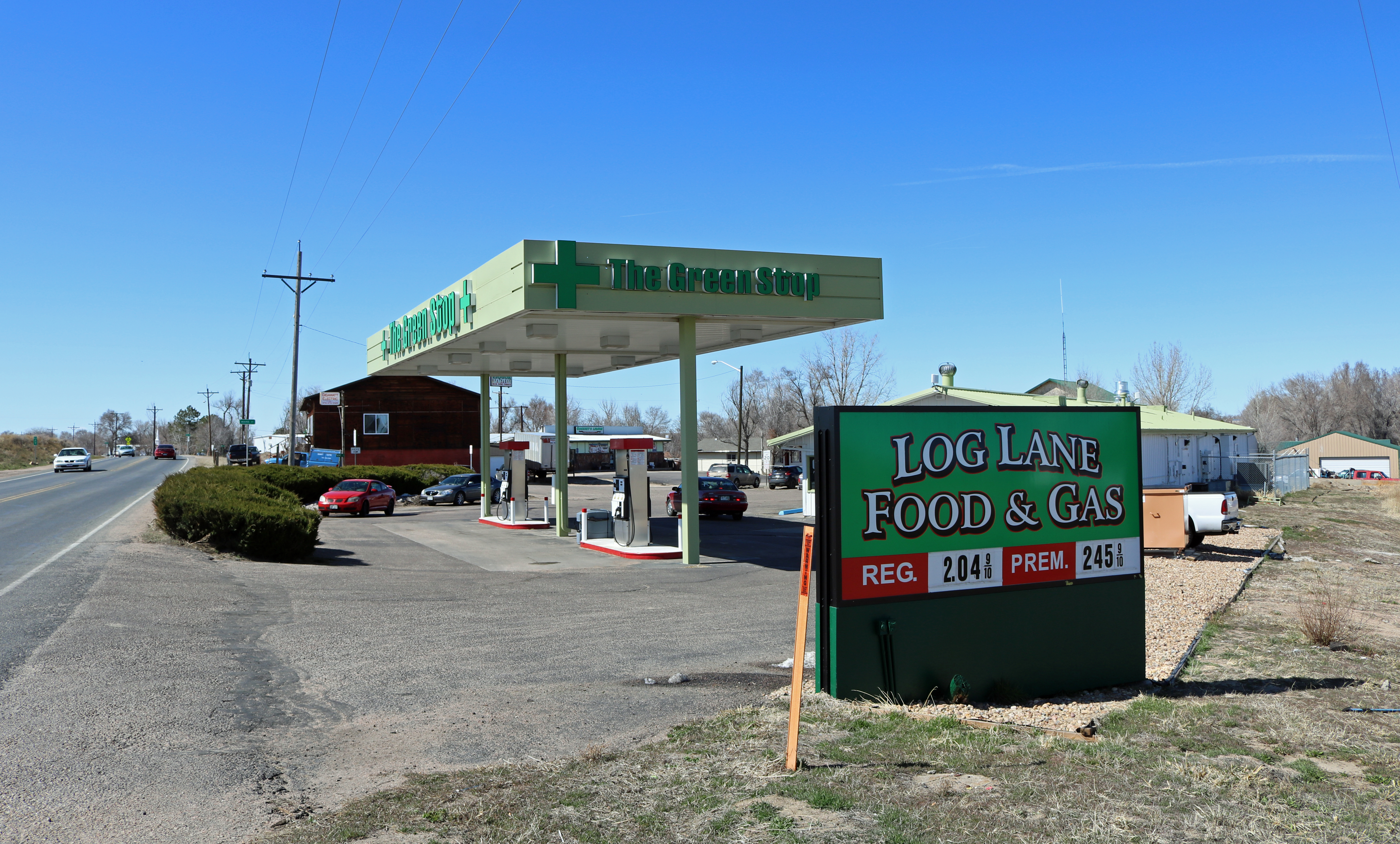 A view of Log Lane Village, in Morgan County, Colorado. The view is of Log Lane Food & Gas, a gas station. The station also houses a retail marijuana (cannabis) store called "The Green Stop." The highway on the left is Colorado State Highway 144.